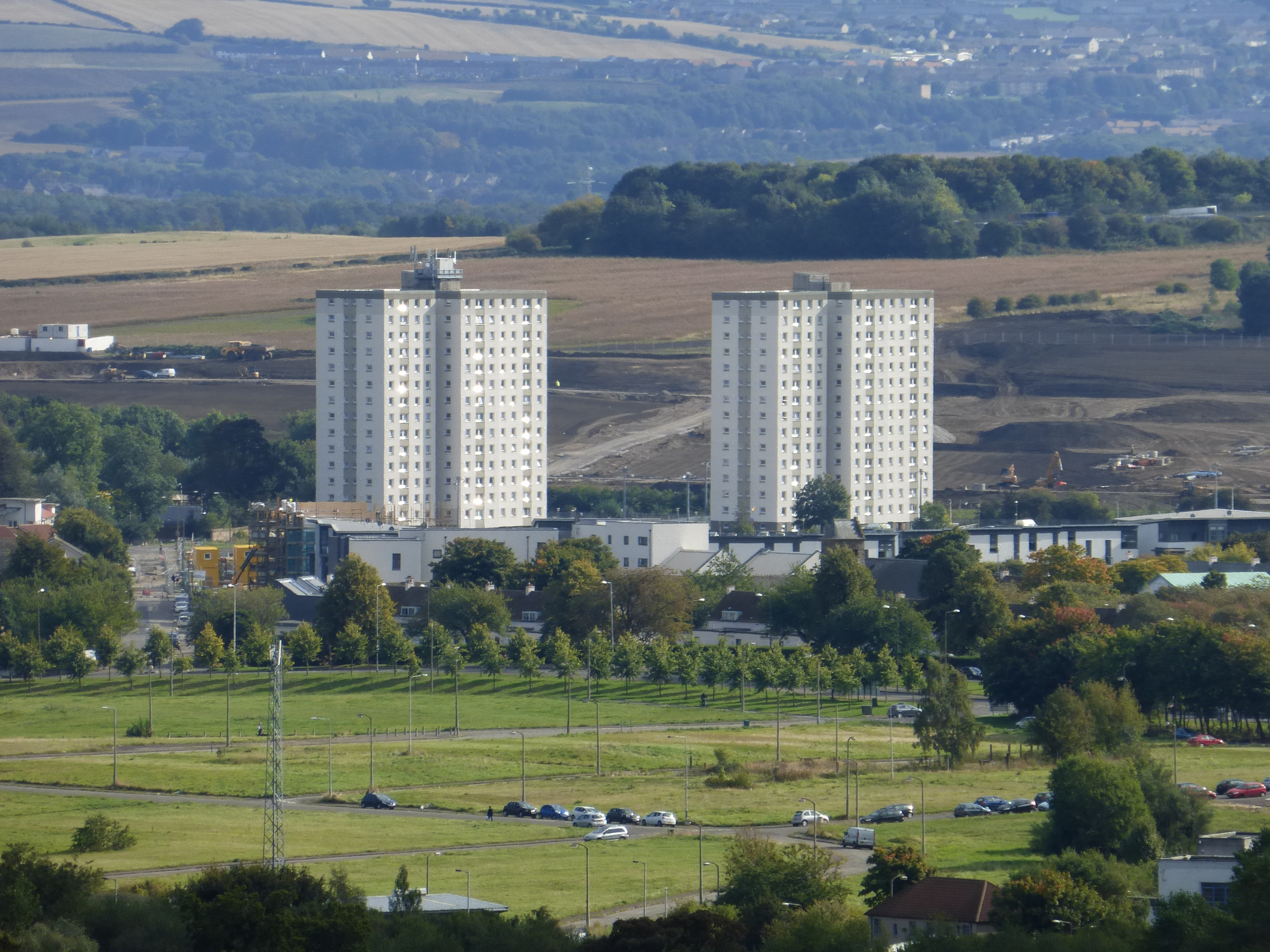 Greendykes flats from Arthur's Seat